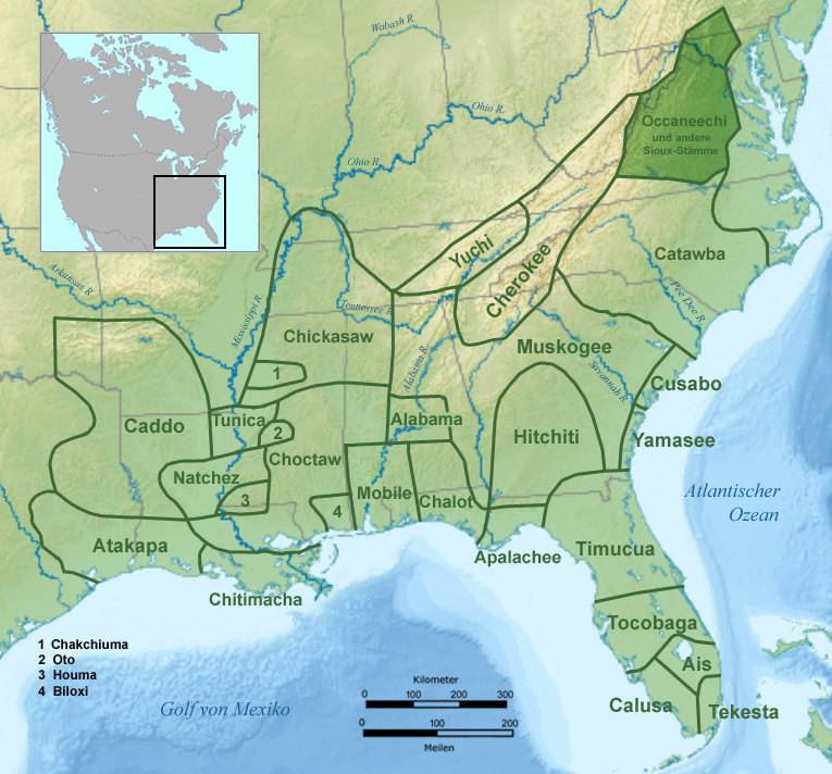 Tribal territory of Occanechi during seventeenth century